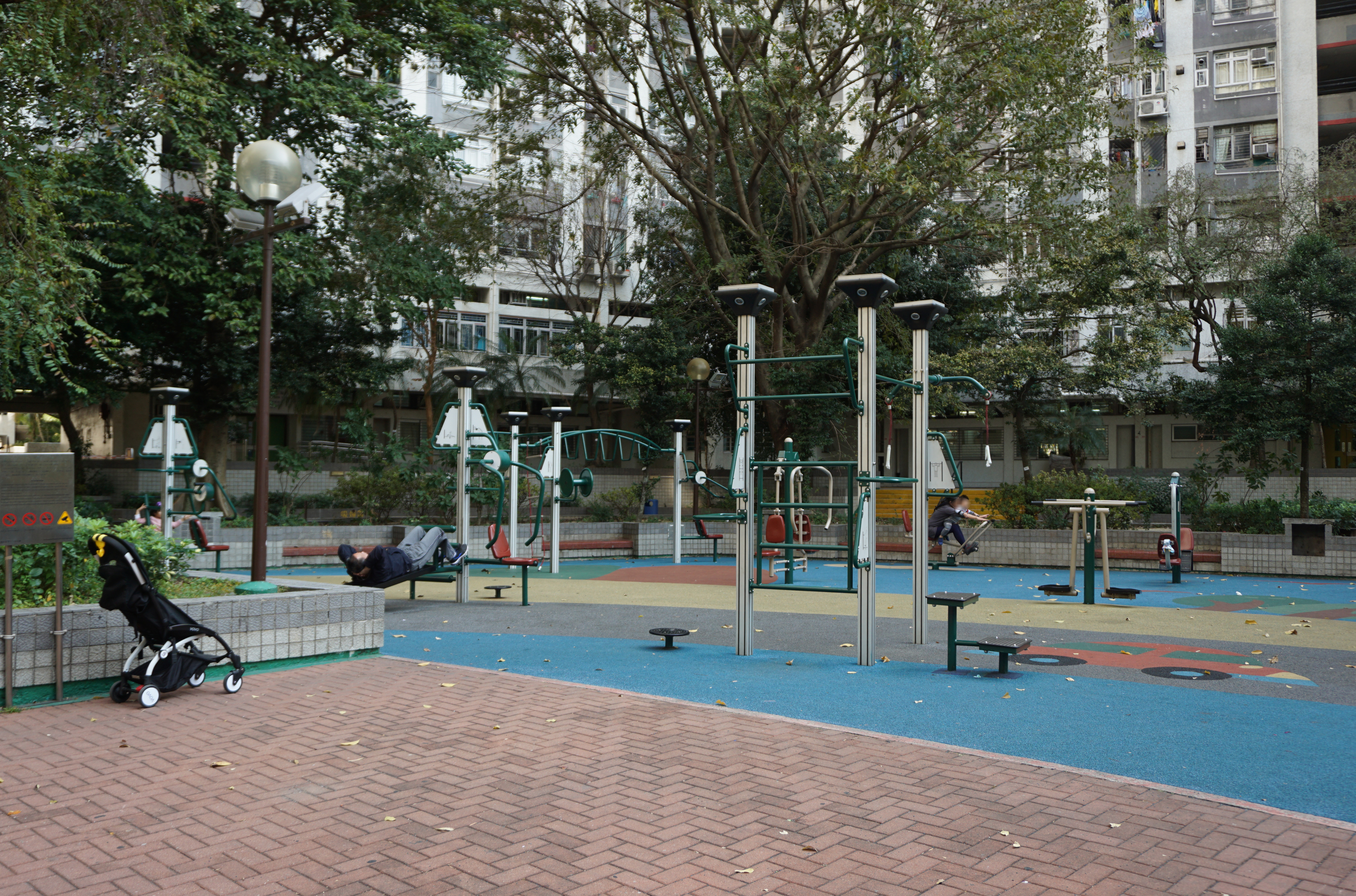 Long Ping Estate in Yuen Long, Hong Kong.